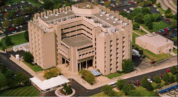 Aerian view of the United States Environmental Protection Agency Andrew W. Breidenbach Environmental Research Center in Cincinnati